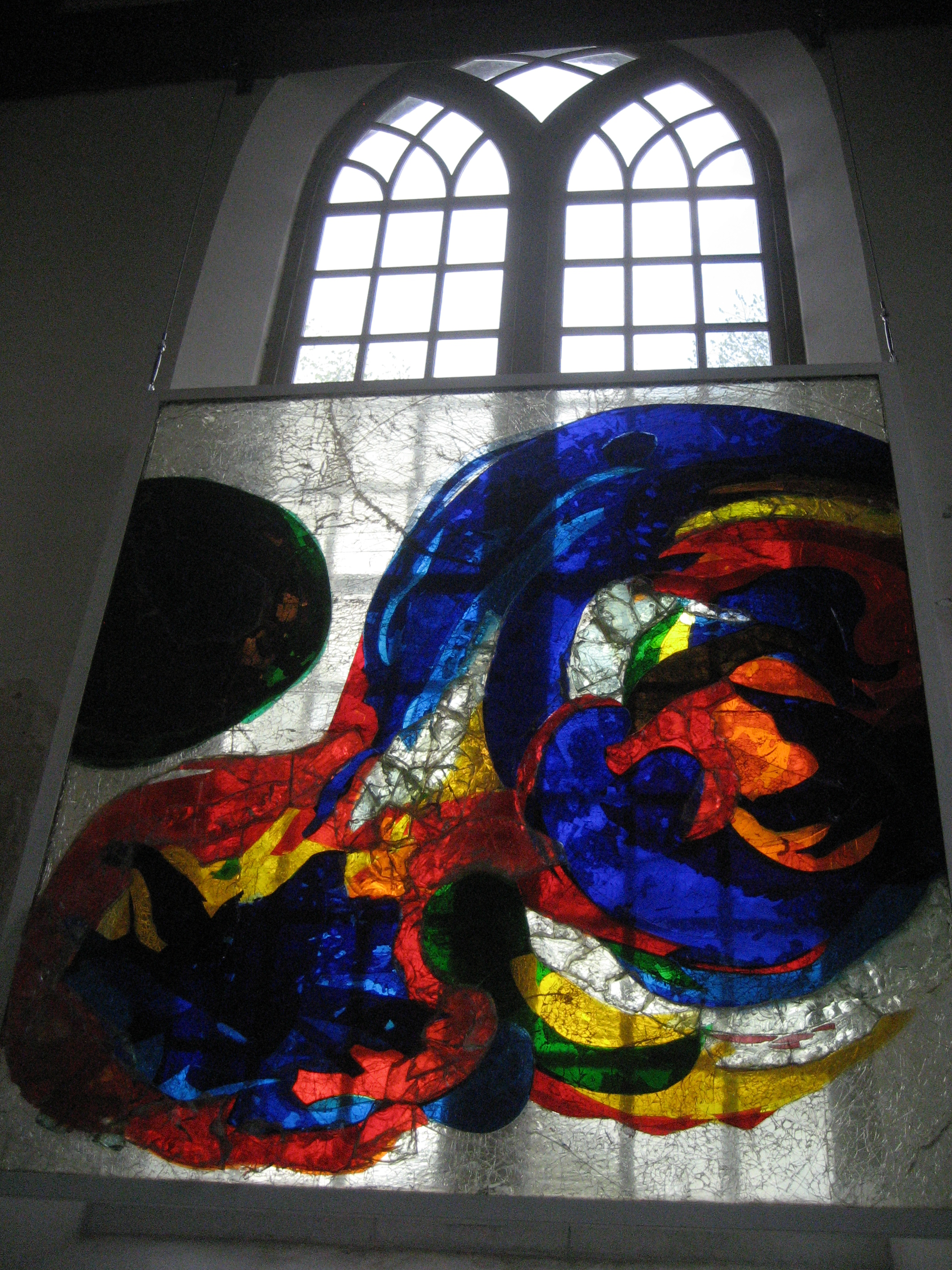 Dorpskerk Abcoude (The Netherlands). Glass art by Johannes Petrus, (Joop) van den Broek